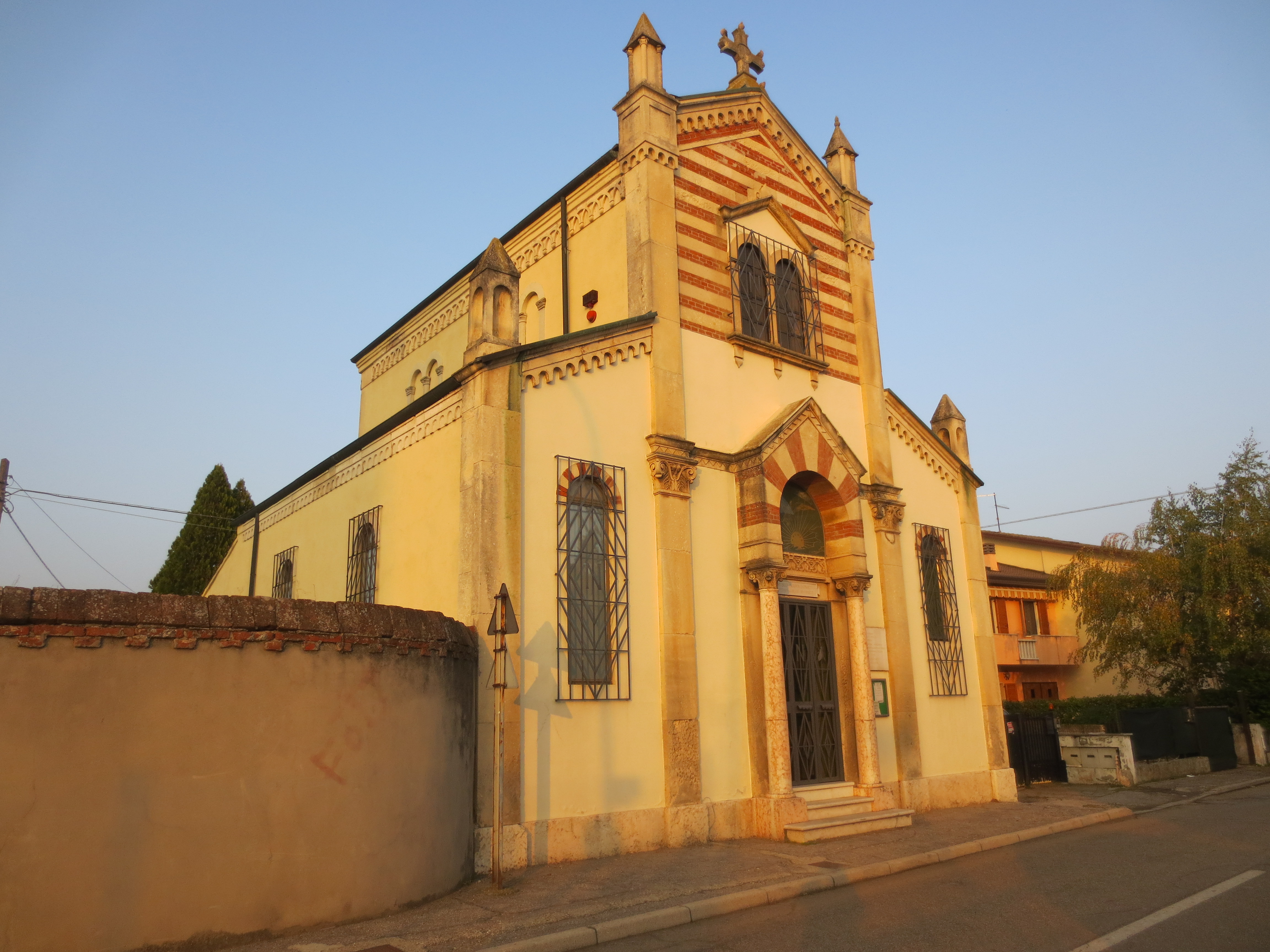 Napoleonic museum of Arcole